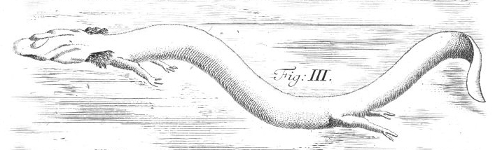 Sketch of the Olm (Proteus anguinus) on page 225.